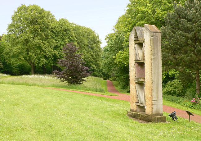 sculpture Turm der Bücher in Kurpark Bad Helmstedt/Germany Foto aufgenommen von Benutzer Benutzer:AxelHH, Juni 2006